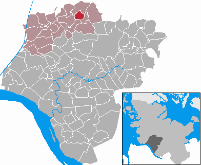 This map shows the area of the municipality Oldenborstel in the Kreis (district) Steinburg, Schleswig-Holstein, Germany.